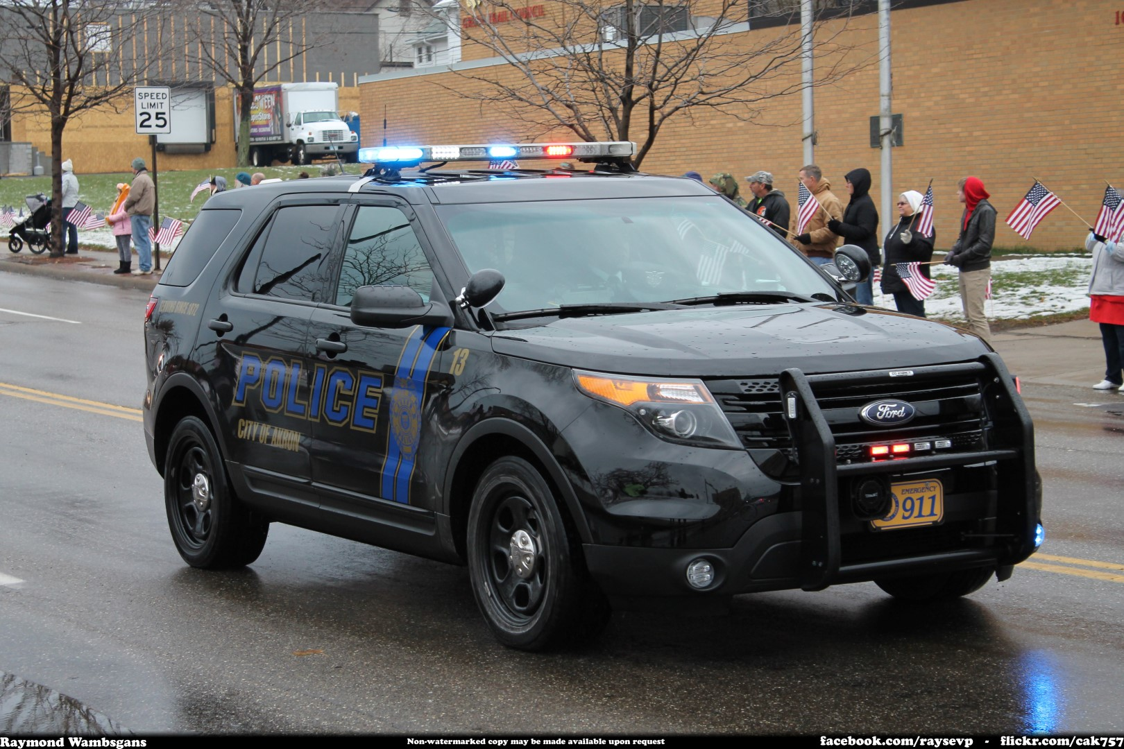 APD Ford Explorer